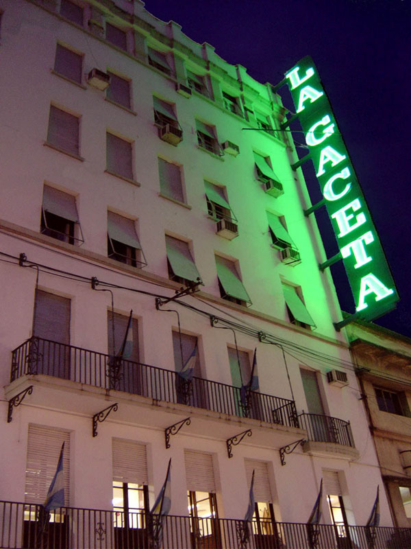 Night view of La Gaceta Headquarters in Tucumán, Argentina.